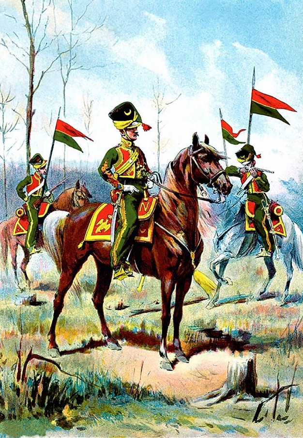 Lithuanian Tartars of the squadron of the Imperial Guard. Center, an officer.